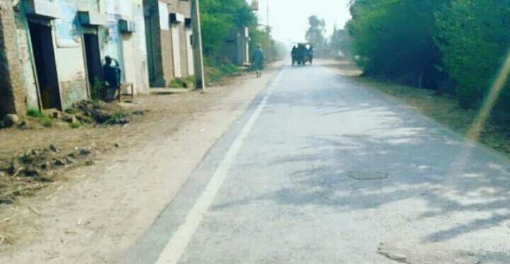 I also Uploaded this Photo on Botala Facebook Page & on website